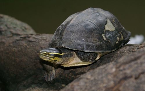 Description: Cuora amboinensis kamaroma Author: Torsten Blanck (User:Cuora)